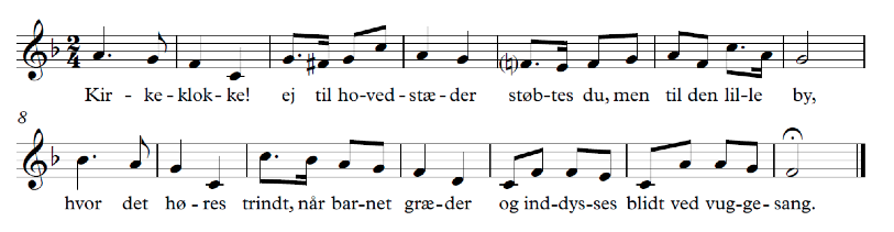 The melody is noted in the Koralbogen (2003)